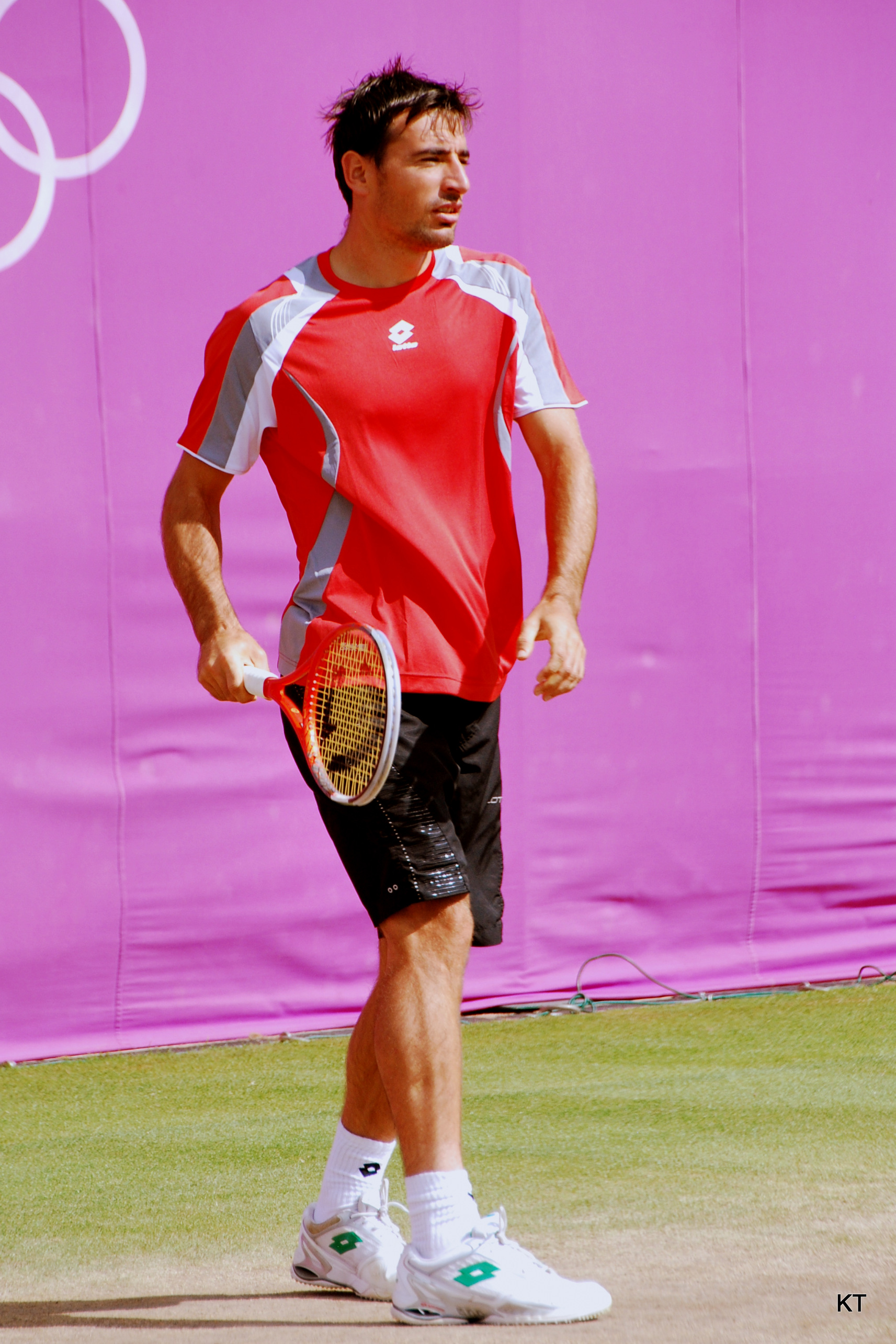 On the practice court with doubles partner Marin Cilic.